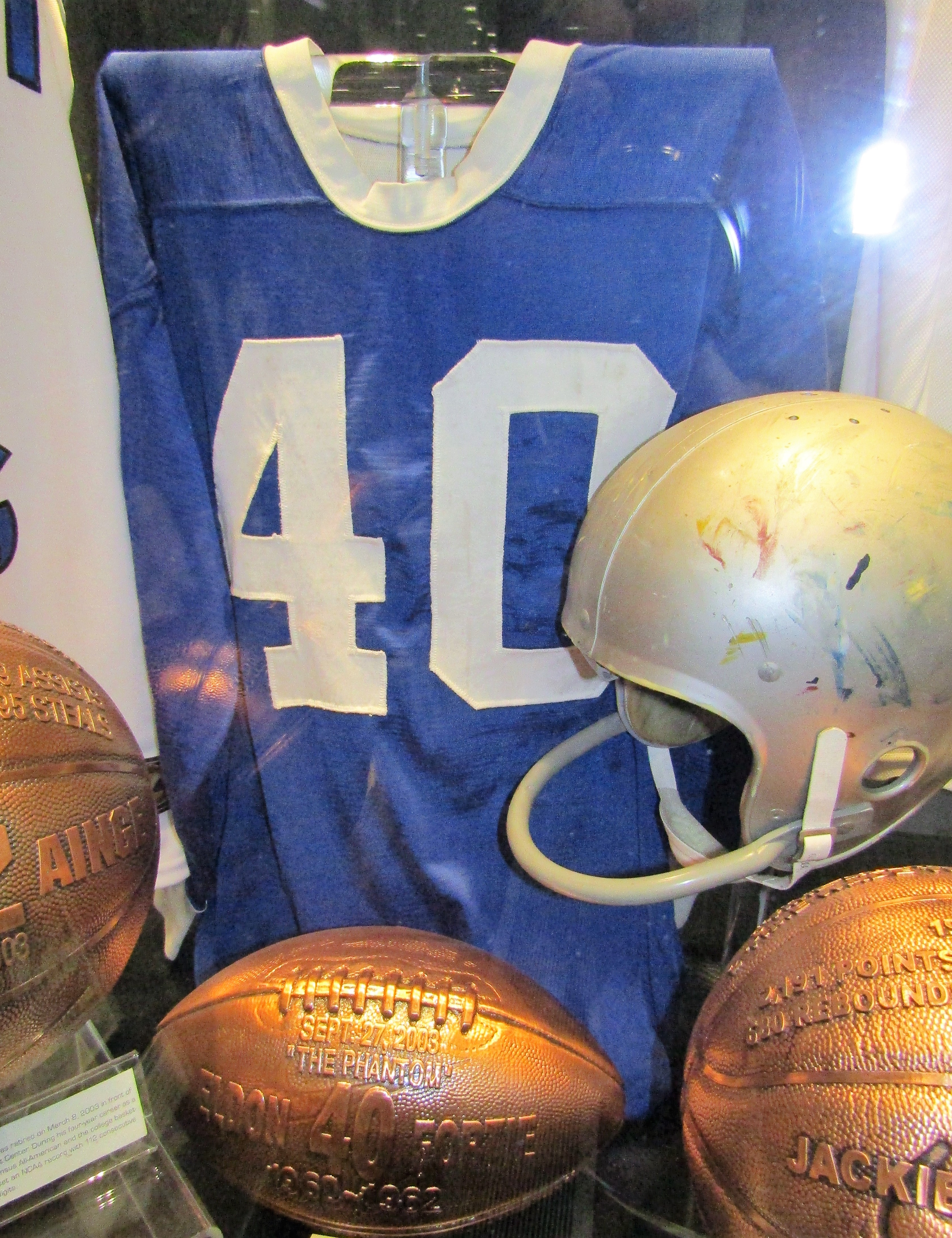 College football jersey and trophy of Eldon Fortie at the BYU Legacy Hall.